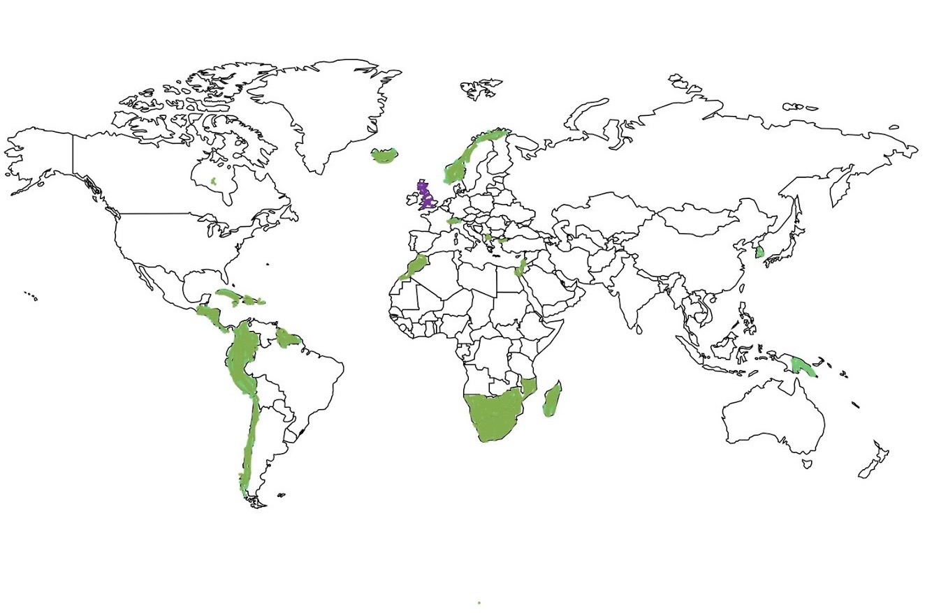 Trade